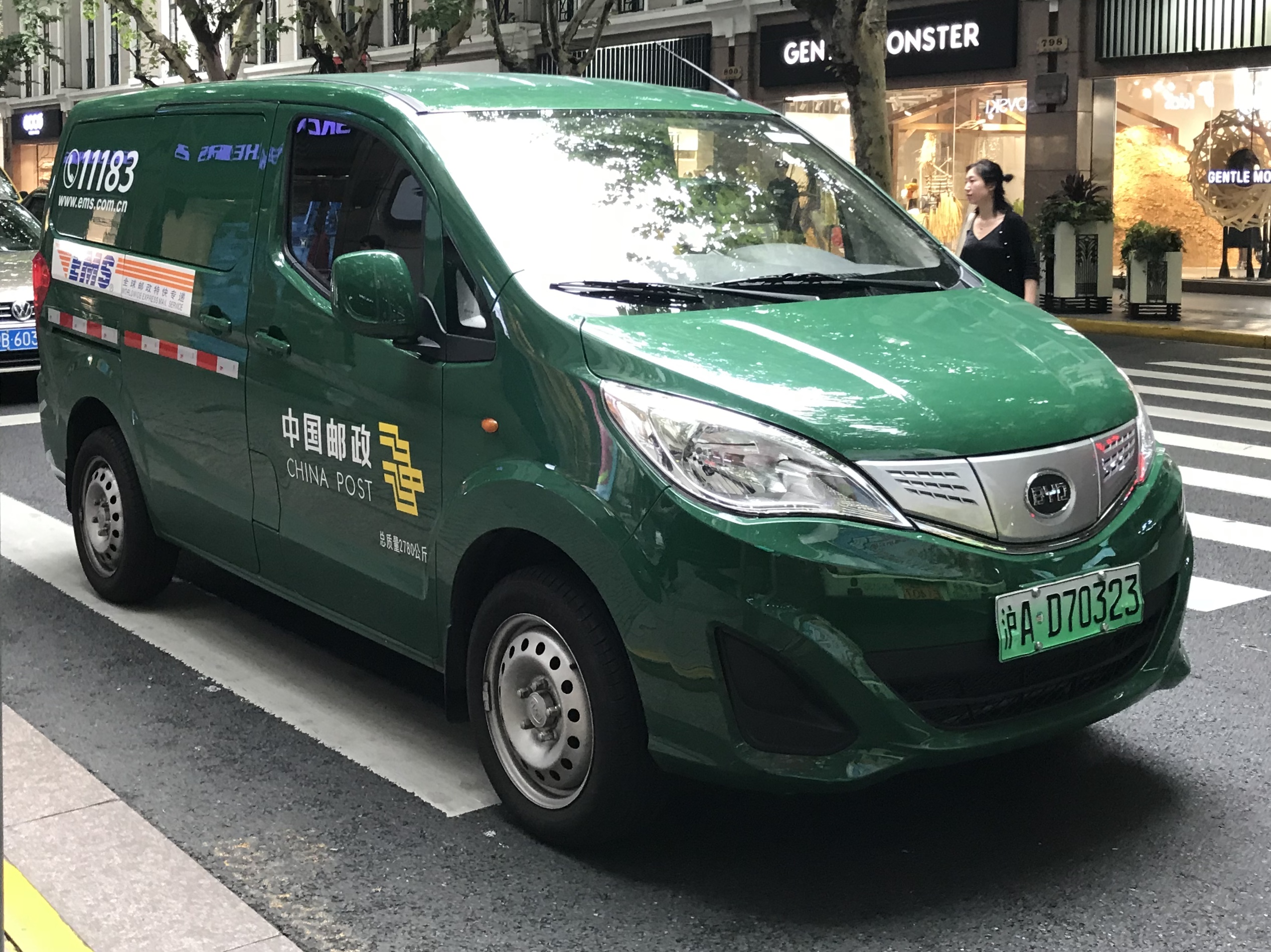 BYD T3 front